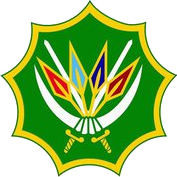 Emblem of South African National Defence Force